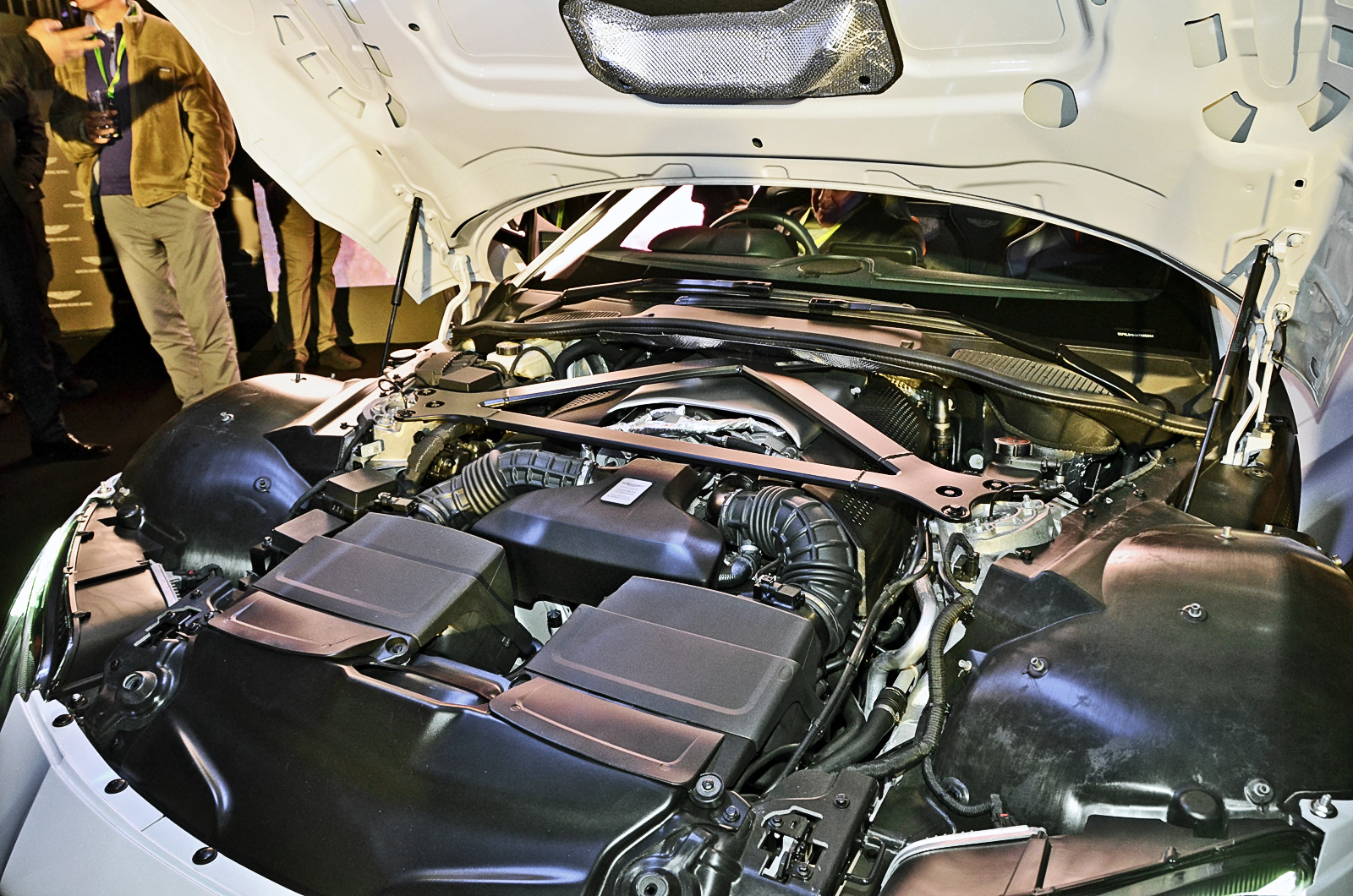 Vantage (prototype) in Hong Kong; engine bay showing the twin-turbo 4-liter Mercedes-AMG V8.